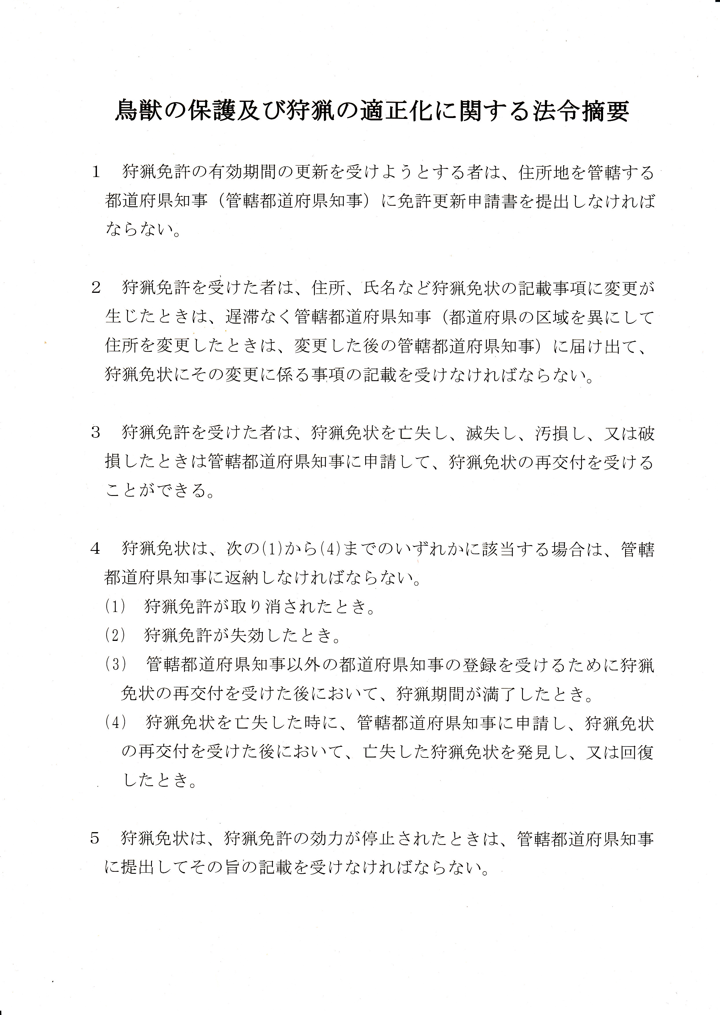 The Gun hunting license as First Category(Back).